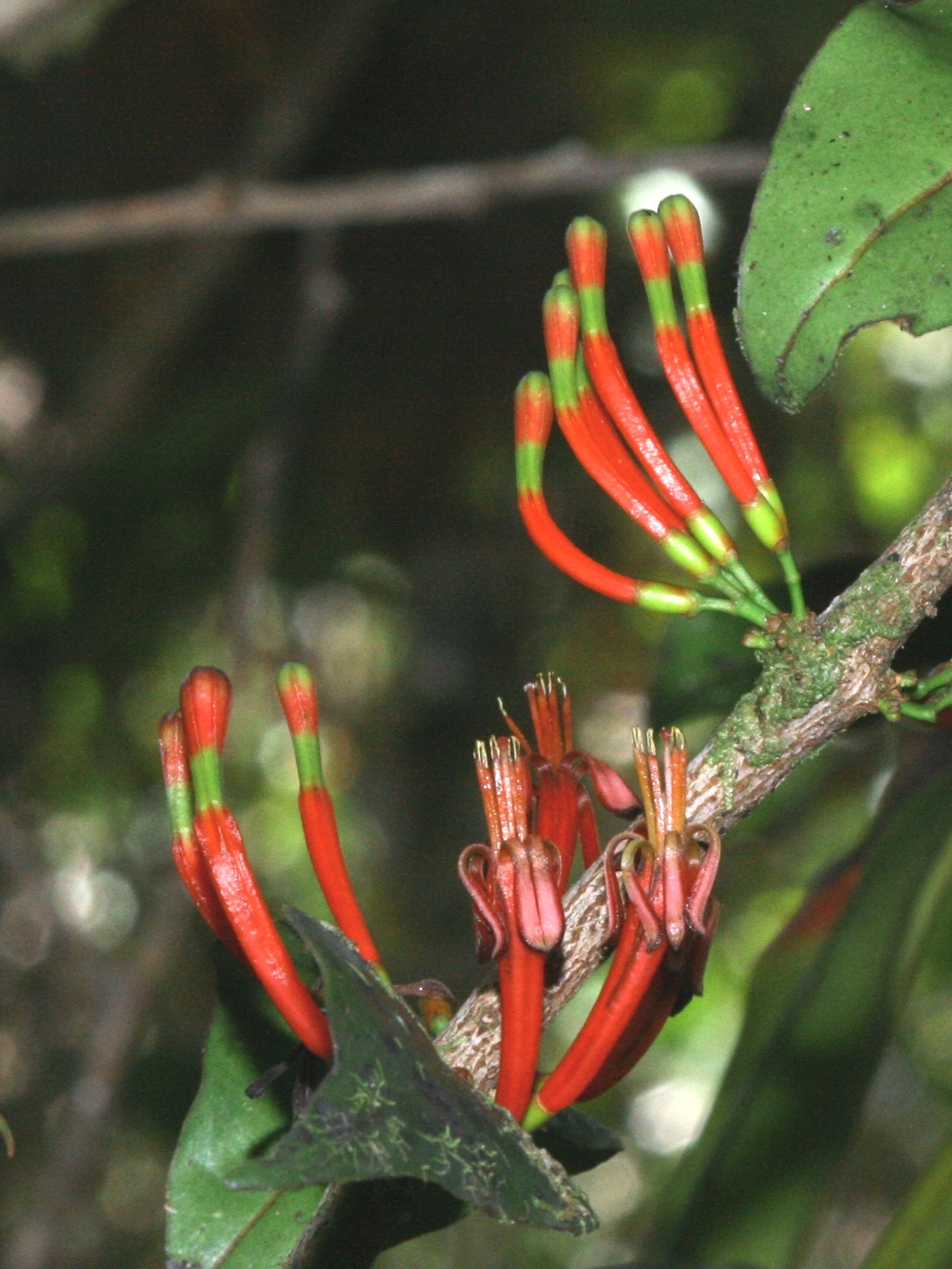 Amyema sp., Gunung Kemiri, Sumatera